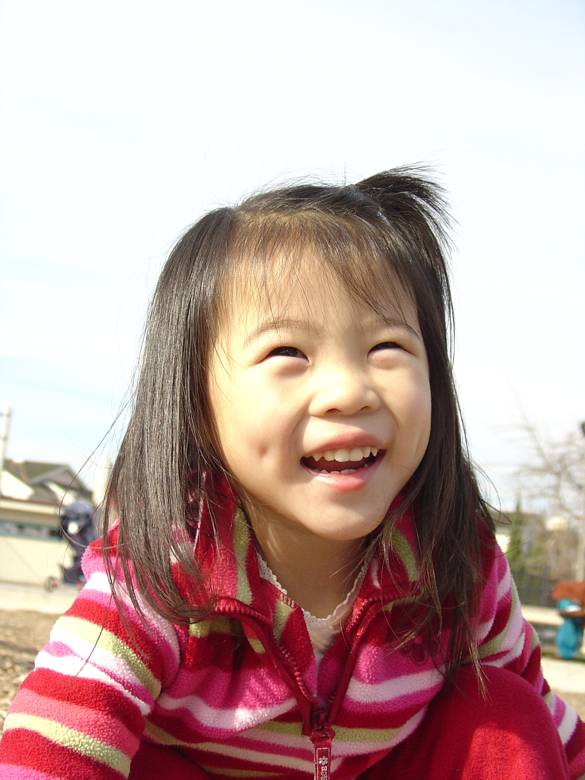 Asian (Oriental) American girl with dimples.2006_01.13 Naomi at park (4)